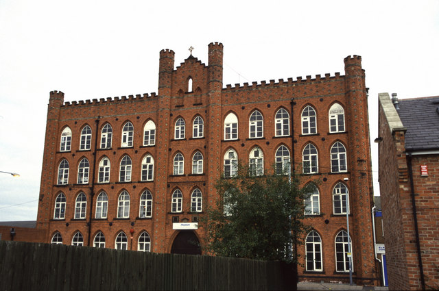 Anglo-Scotian Mills, Beeston Tenement lace factory of 1892. Not quite in the same league as Templeton's carpet factory, Glasgow but quite passable on a dull Sunday in December.